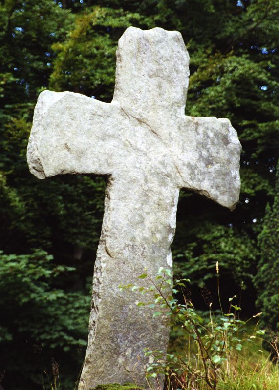 Stone crucifix outsideen:Fantoft stave church, originaly one of four from Tjora outside Sola. Uploaded on request from the photographer.